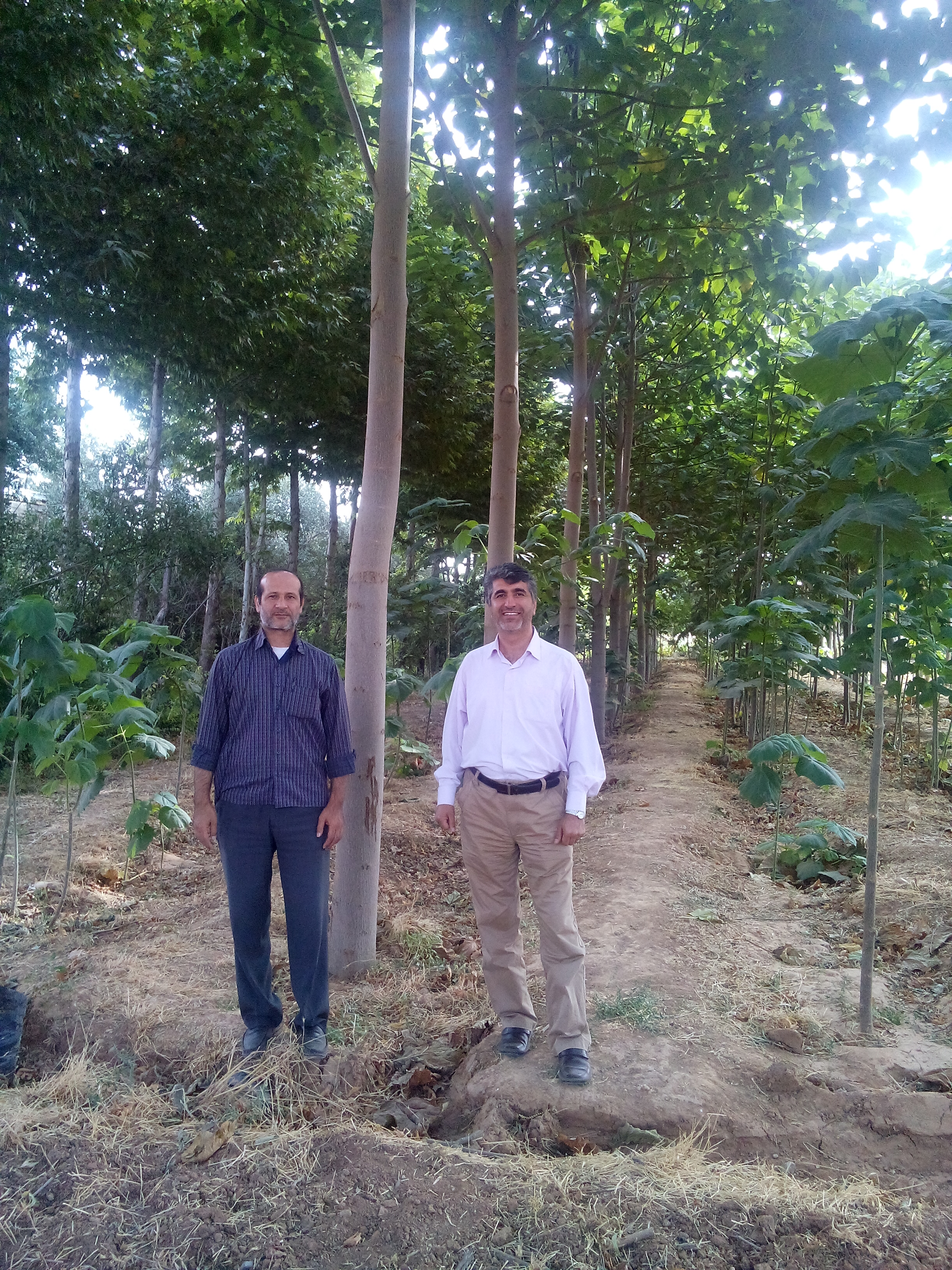 Alireza Nasiri who started the movement of commercial afforestation in Iran with an artificial forest in Shiraz